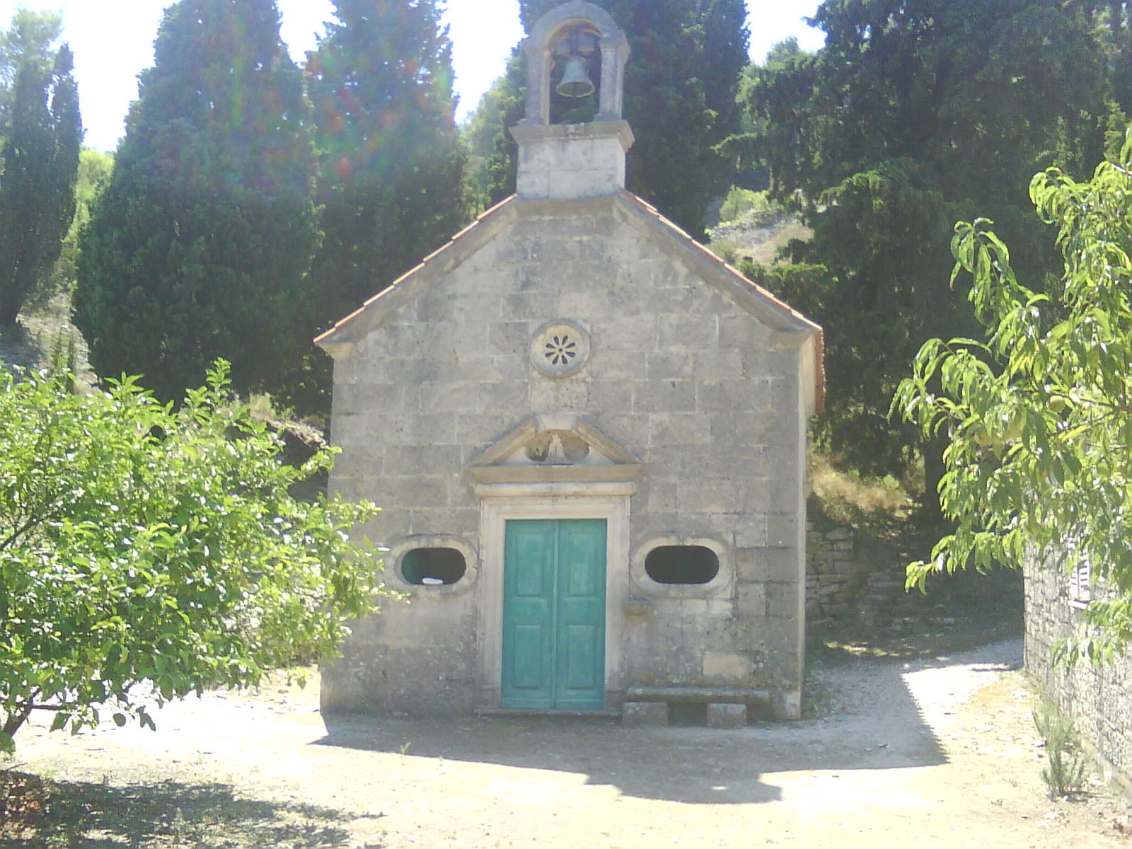 Roman catholic chappel on the Island of Vrnik